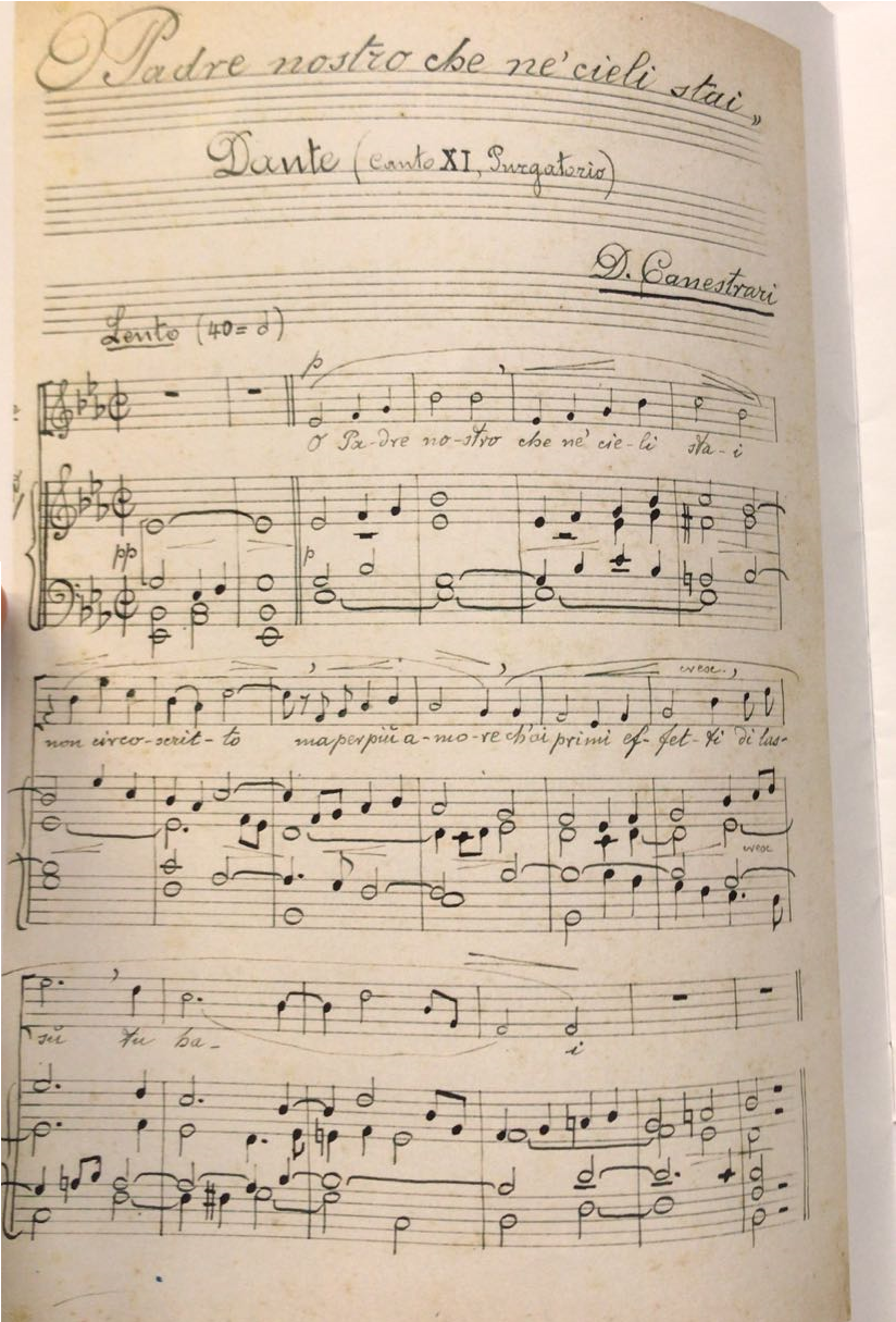 csnestrari's autograph